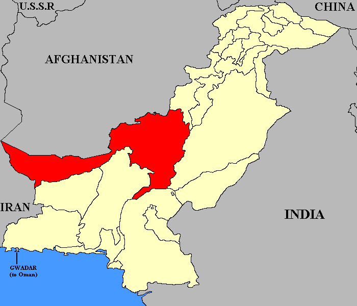 Approximate location of the former Baluchistan Chief Commissioner's Province within Pakistan